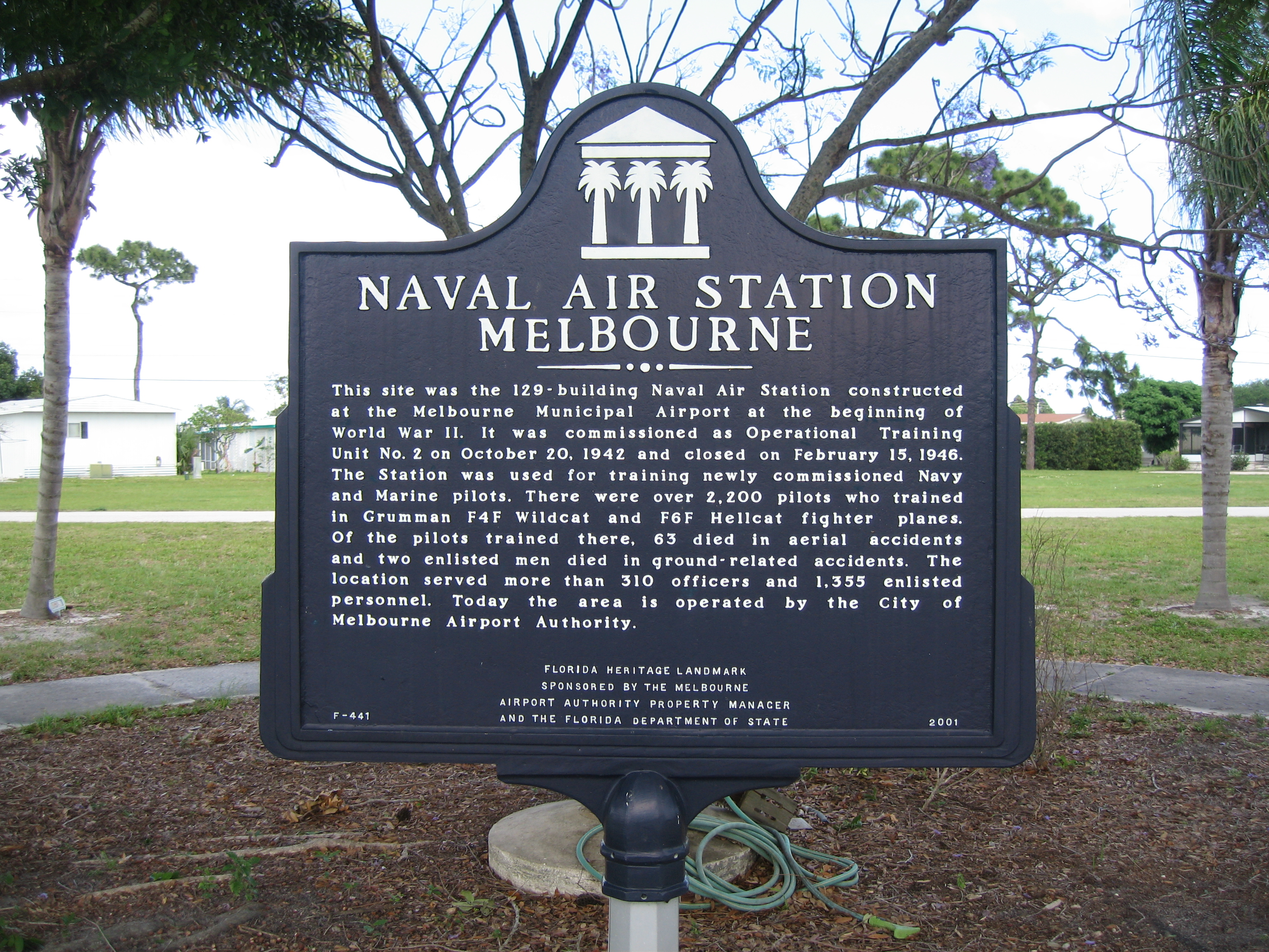 Historical marker designating the site of the Naval Air Station Melbourne. The marker is located along the east side of Eddie Allen Road between Joe Walker Road and the Trailer Haven Community Center in Melbourne, Florida, United States. The closest landmark to the marker is the Trailer Haven Community Center located at 1205 Eddie Allen Road. Photograph taken facing east, showing the west side of the sign.